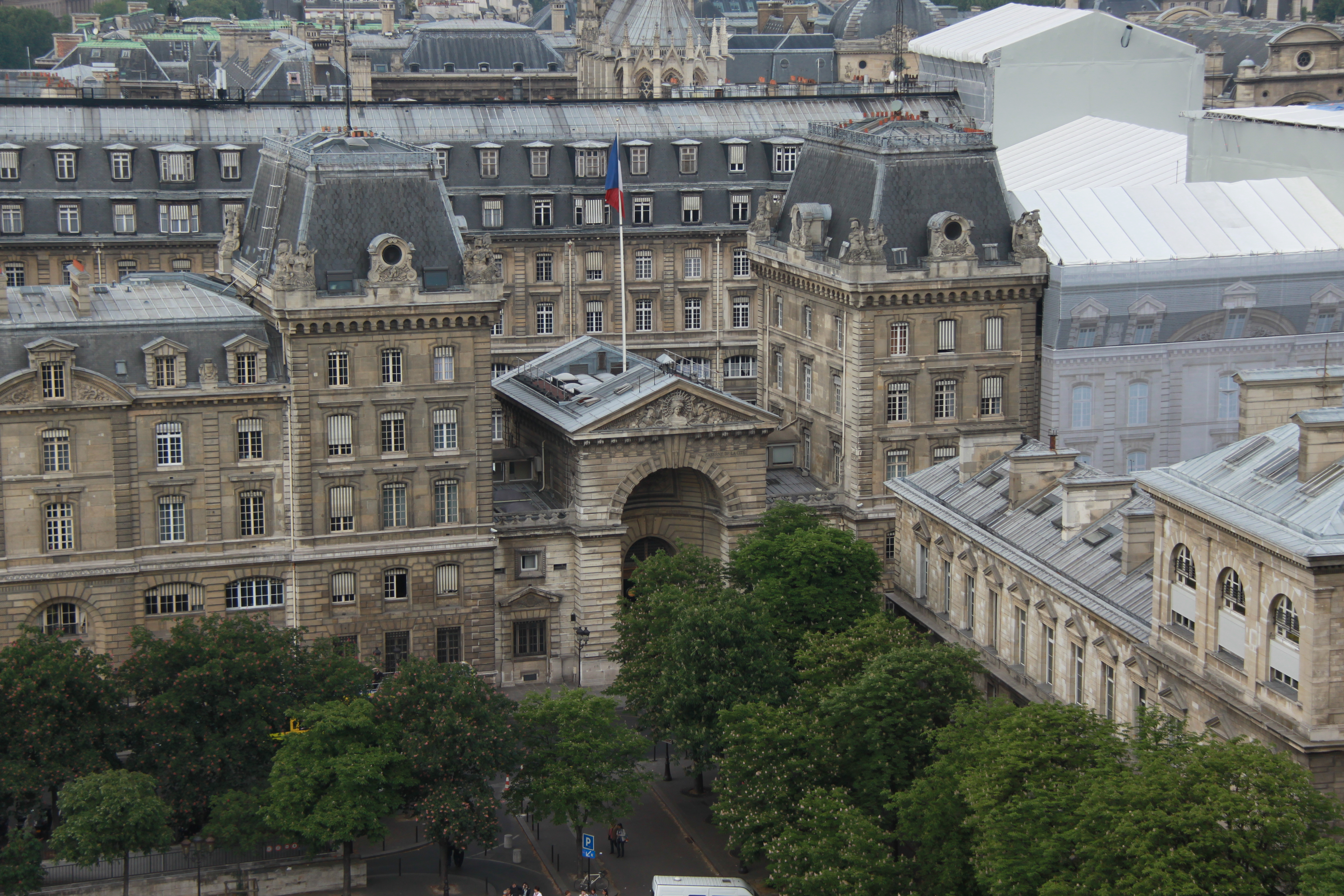 East facade, Préfecture de police and, on the right, Hôtel-Dieu hospital, seen from Notre-Dame de Paris.